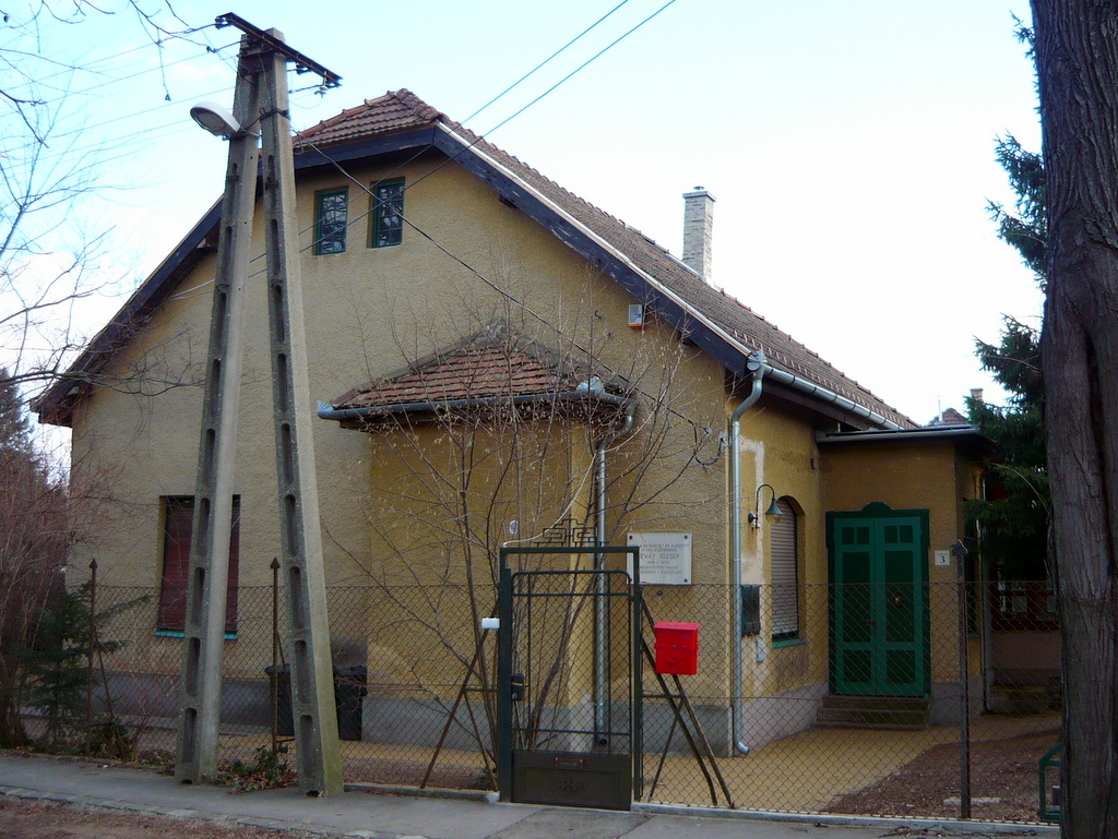 The former home of the Hungarian writer József Révay (1881–1970) in the 16th District of Budapest